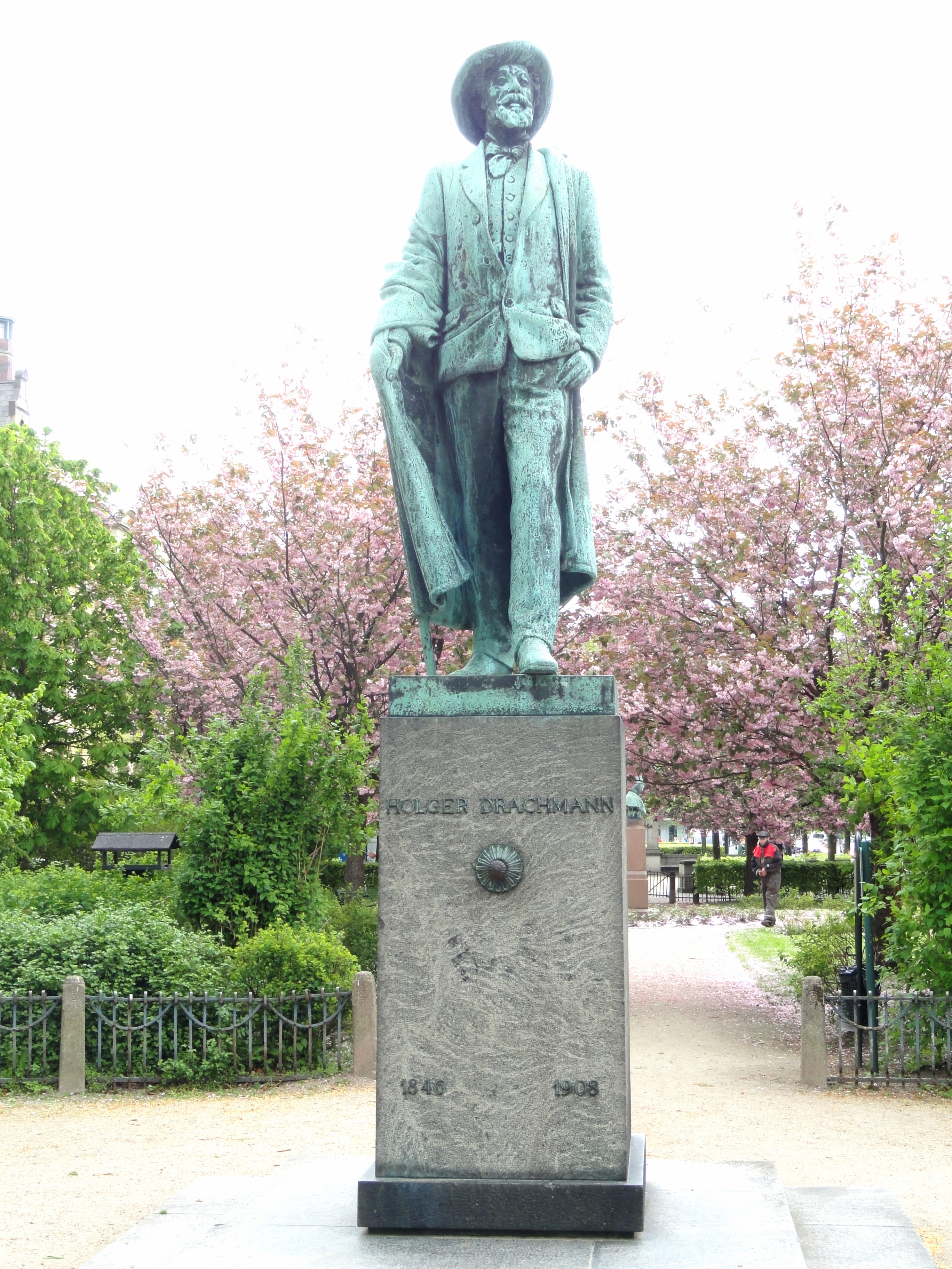 Statue of Holger Drachmann by Hans Christian Holter (1890-1922), Allégade, Frederiksberg, Copenhagen, Denmark. This artwork is now in the public domain because the artist died more than 70 years ago.